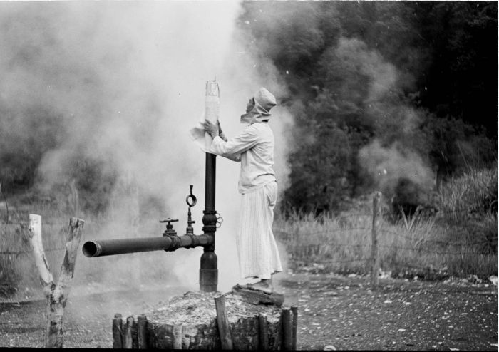 Worker at the Kawah Kamojang geothermal fields.